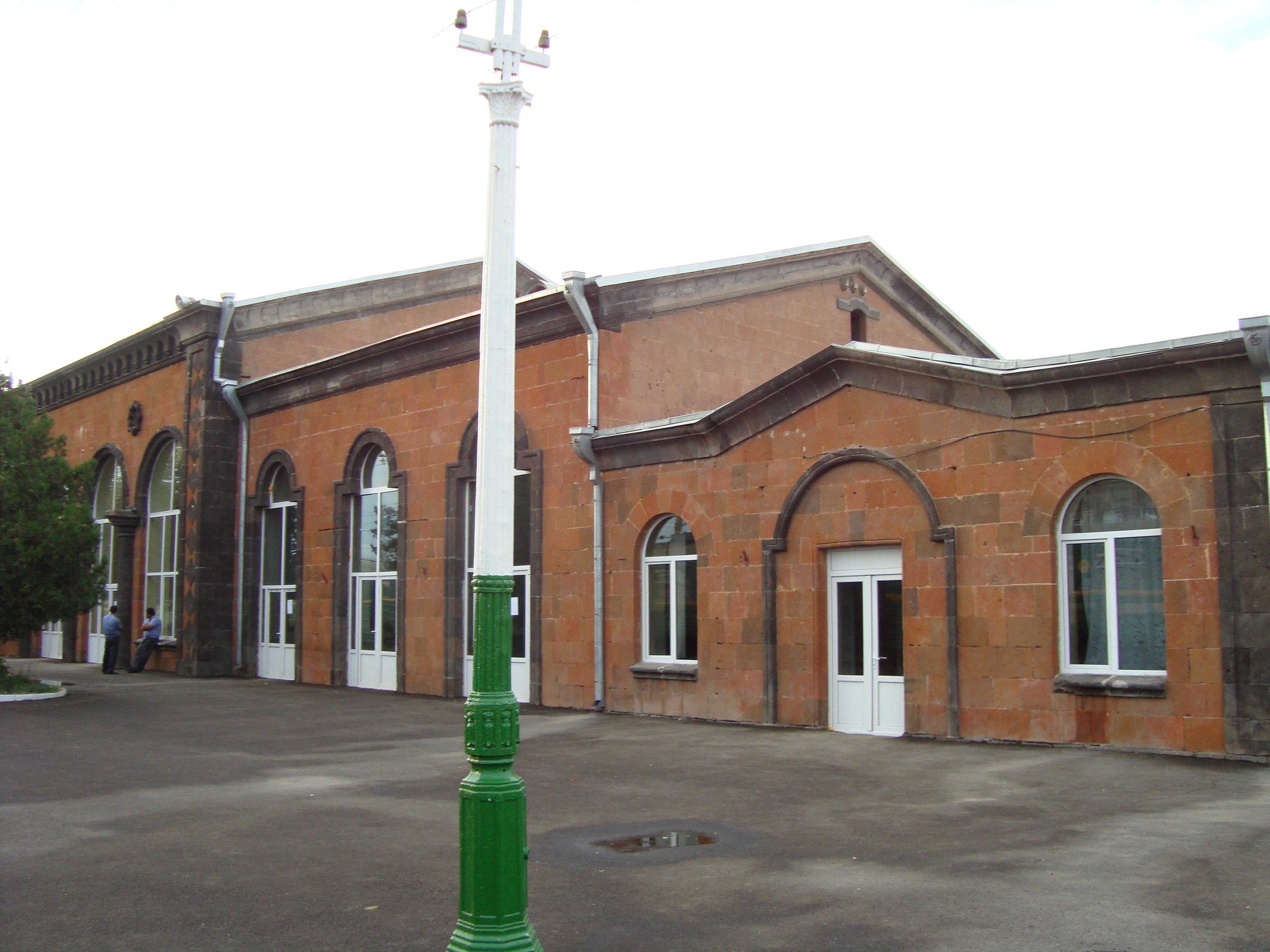 Railroad station in Armavir, marz (region) Armavir, Republic of Armenia